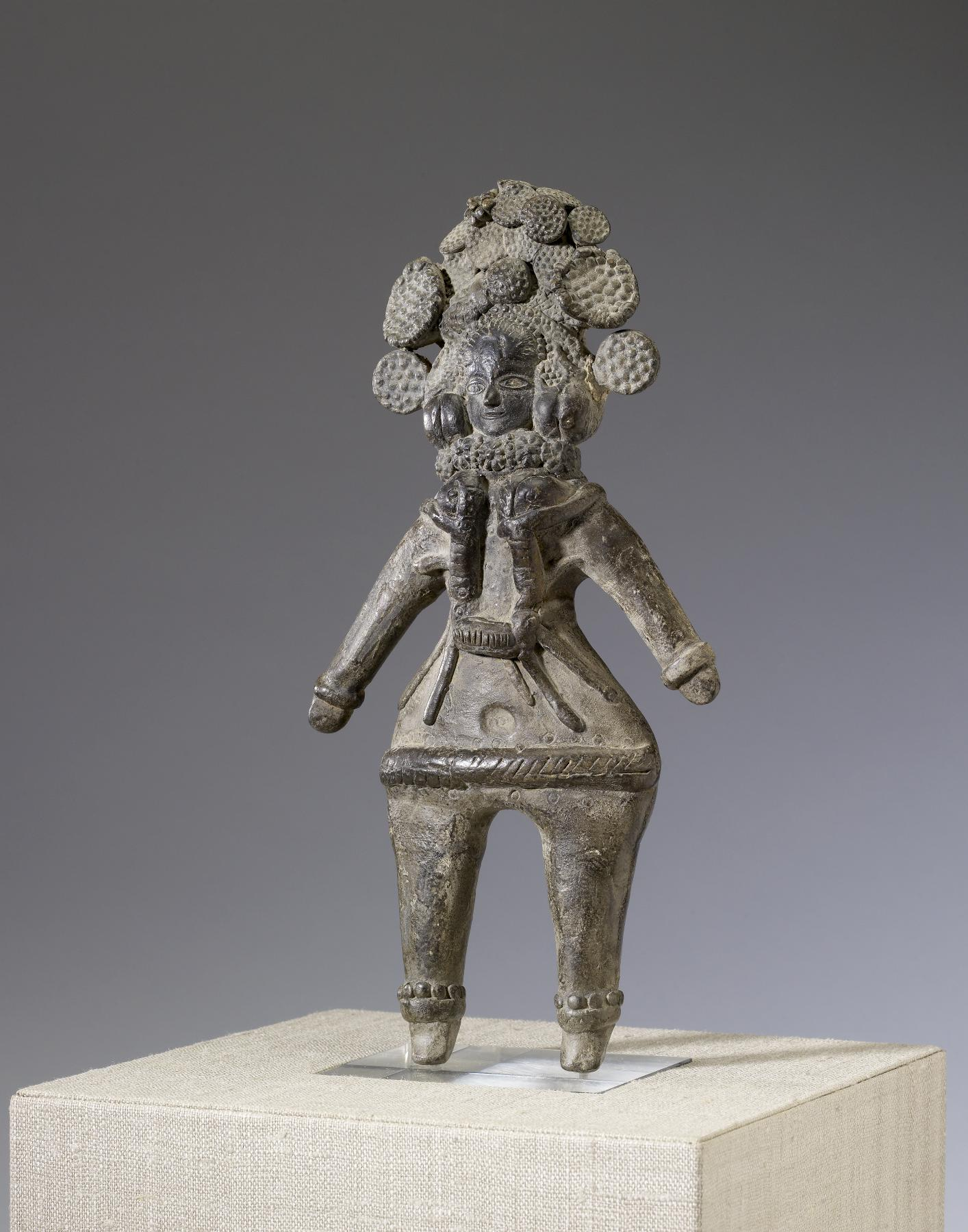 This figure, the oldest example of Indian art on view at The Walters Art Museum, was probably placed flat on her back as an offering at a village shrine. Her wide hips and fantastic floral headdress suggest that the donor hoped to become a mother or to gather an abundant harvest.